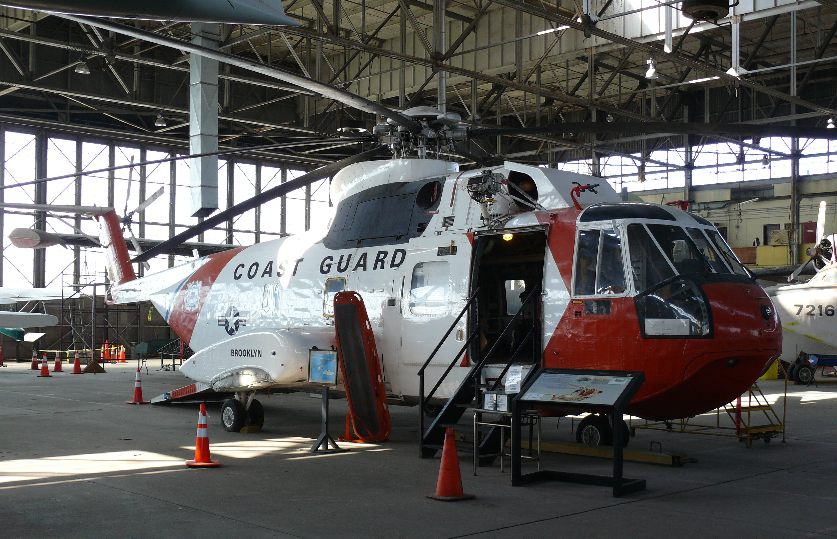 Sikorsky HH-3F Pelican US Coast Guard 1434 (c/n 61-599) in the Historic Aircraft Restoration Project on Floyd Bennett Field (hangar B) in the Gateway National Recreation Area (NY, NJ).